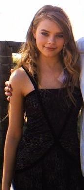 A photo of Indiana Evans that I took myself during one of her breaks from filming "Home & Away"..